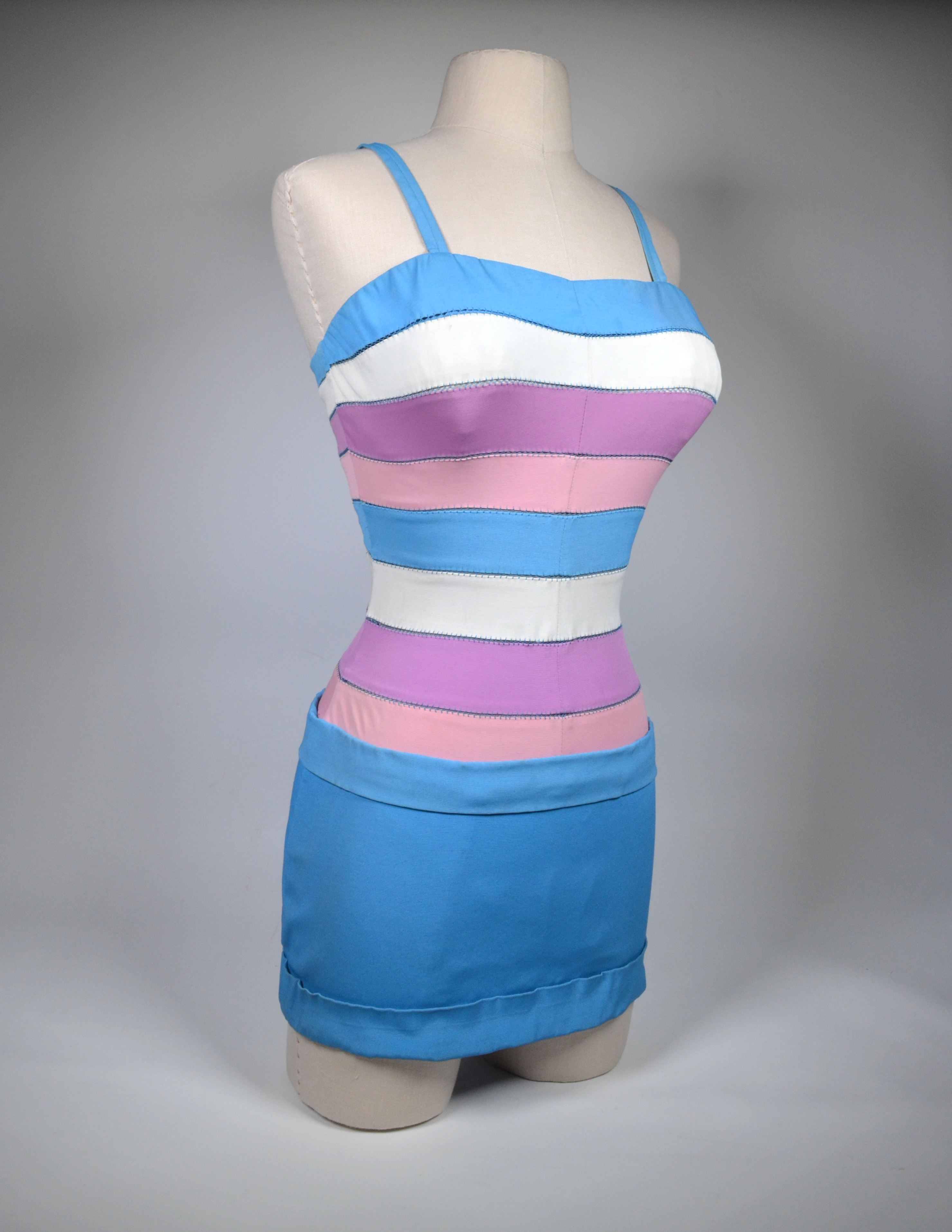 This photo shows a "Royal Ribbons" Rose Marie Reid swimsuit from 1955 owned by the Harold B. Lee Library of Brigham Young University displayed on a dressform.